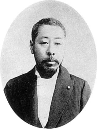 W. Watanabe, Professor of Mining and Metallurgy.